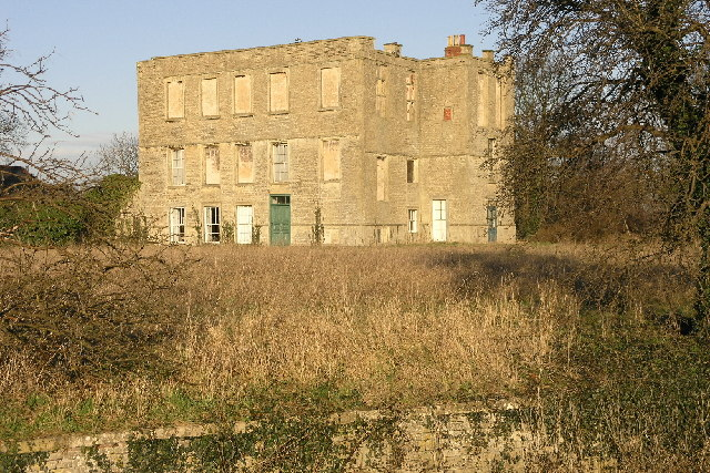 Shireoaks Hall. Shireoaks Hall was built c.1600 by the Hewitt family, altered c.1700, partly demolished and gutted in the early 19th century and patched up subsequently. (A Nicholson, 1999).